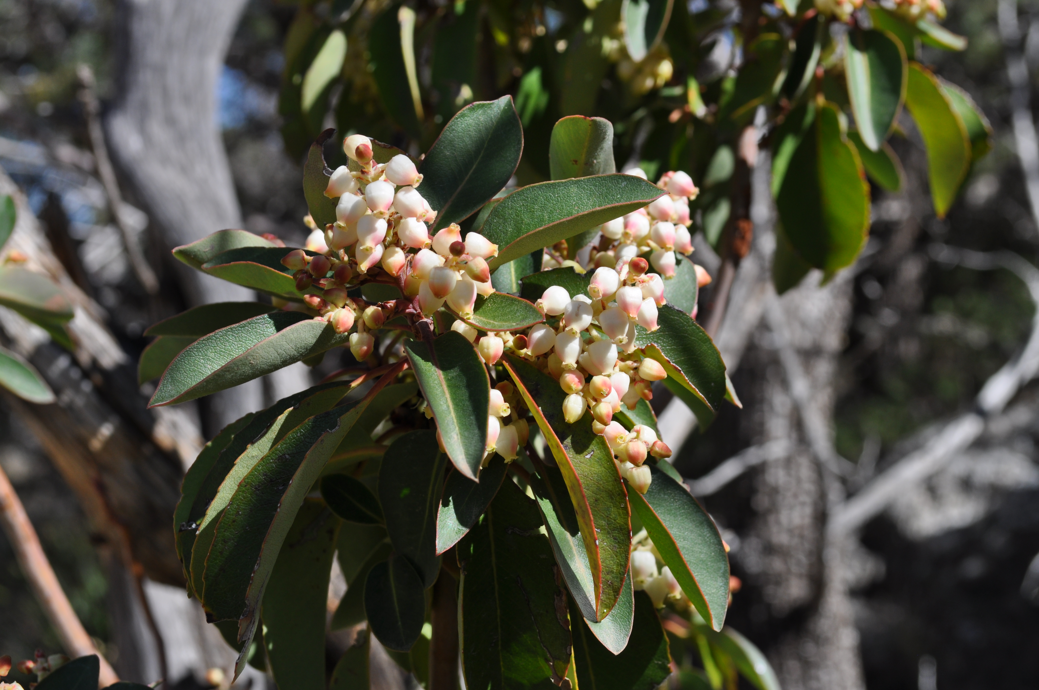 Arbutus xalapensis (Texas madrone) flowers in Guadalupe Mountains National Park, Texas.